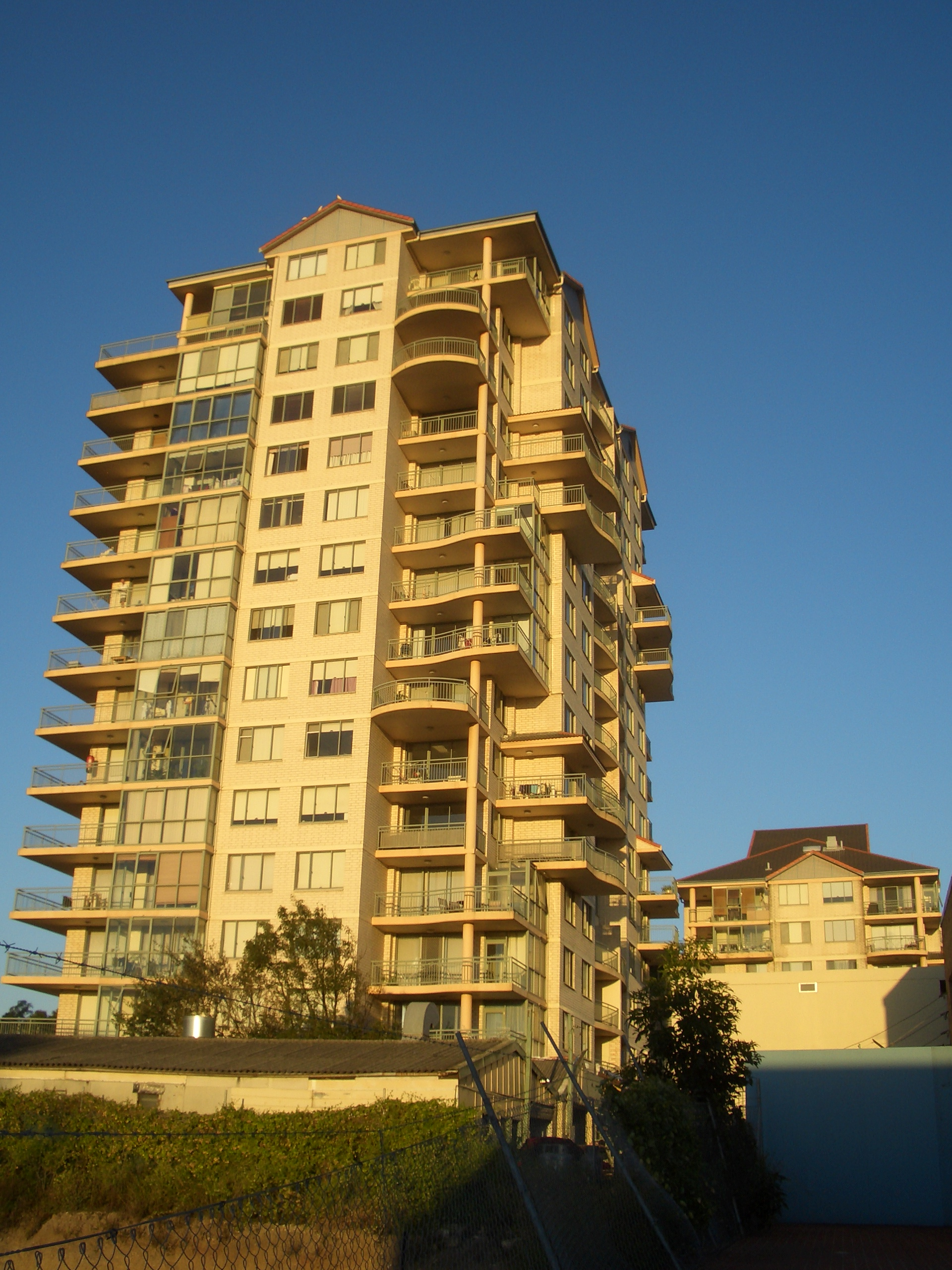 Hurstville apartments in Forest Road, close to King Georges Road